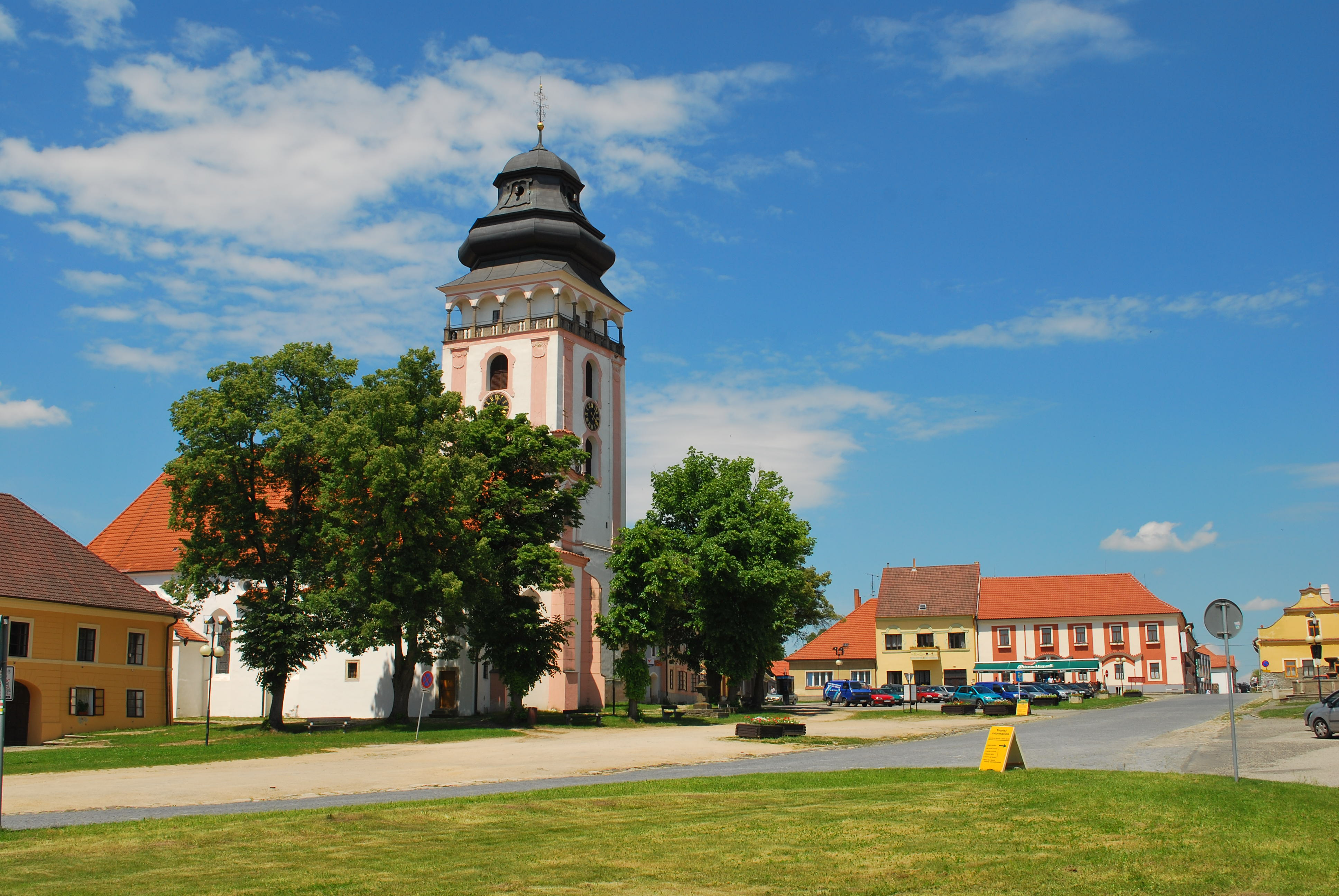 Bechyně in Tábor District, Czech Republic. Square Náměstí T. G. Masaryka and church of Saint Matthias.